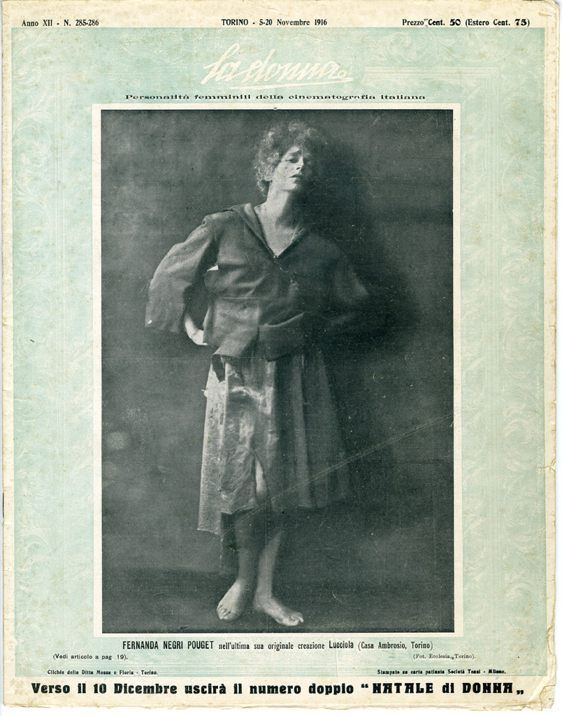 Fernanda Negri Pouget, Italian actress, on the cover of La donna.